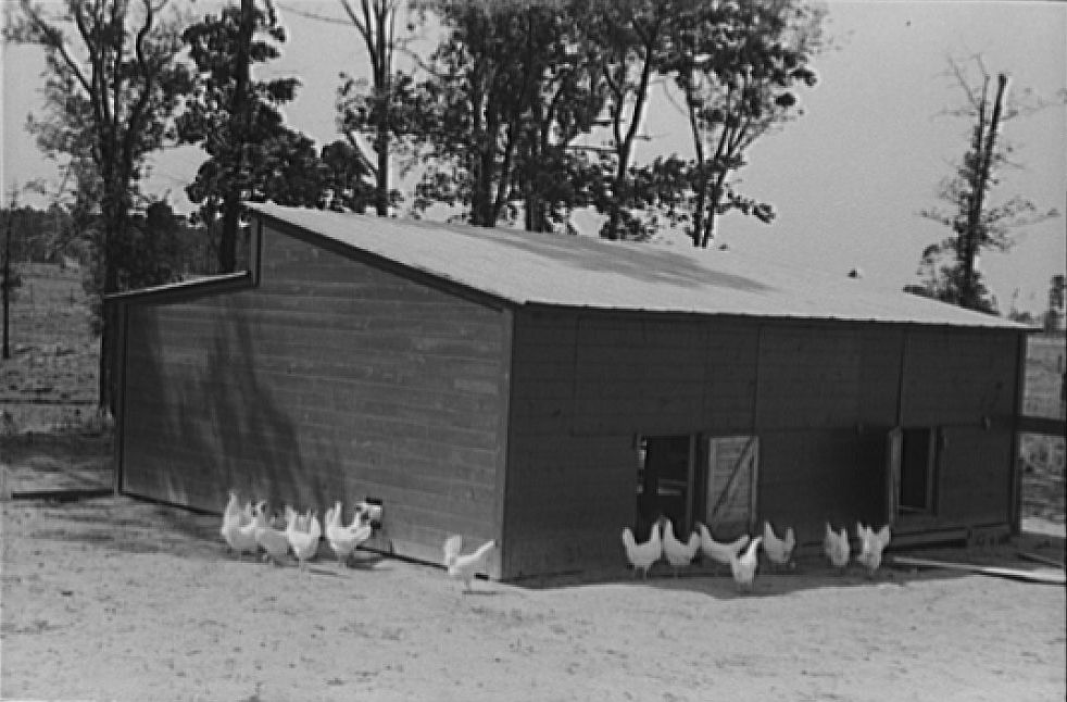 Chicken coop, Sabine Farms, Marshall, Texas